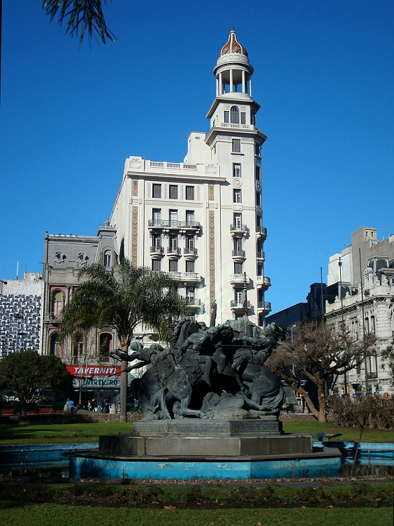 The Edificio Rex - Sala Zitarrosa seen behind the El Entrevero fountain in Plaza Fabini, Montevideo, Uruguay.